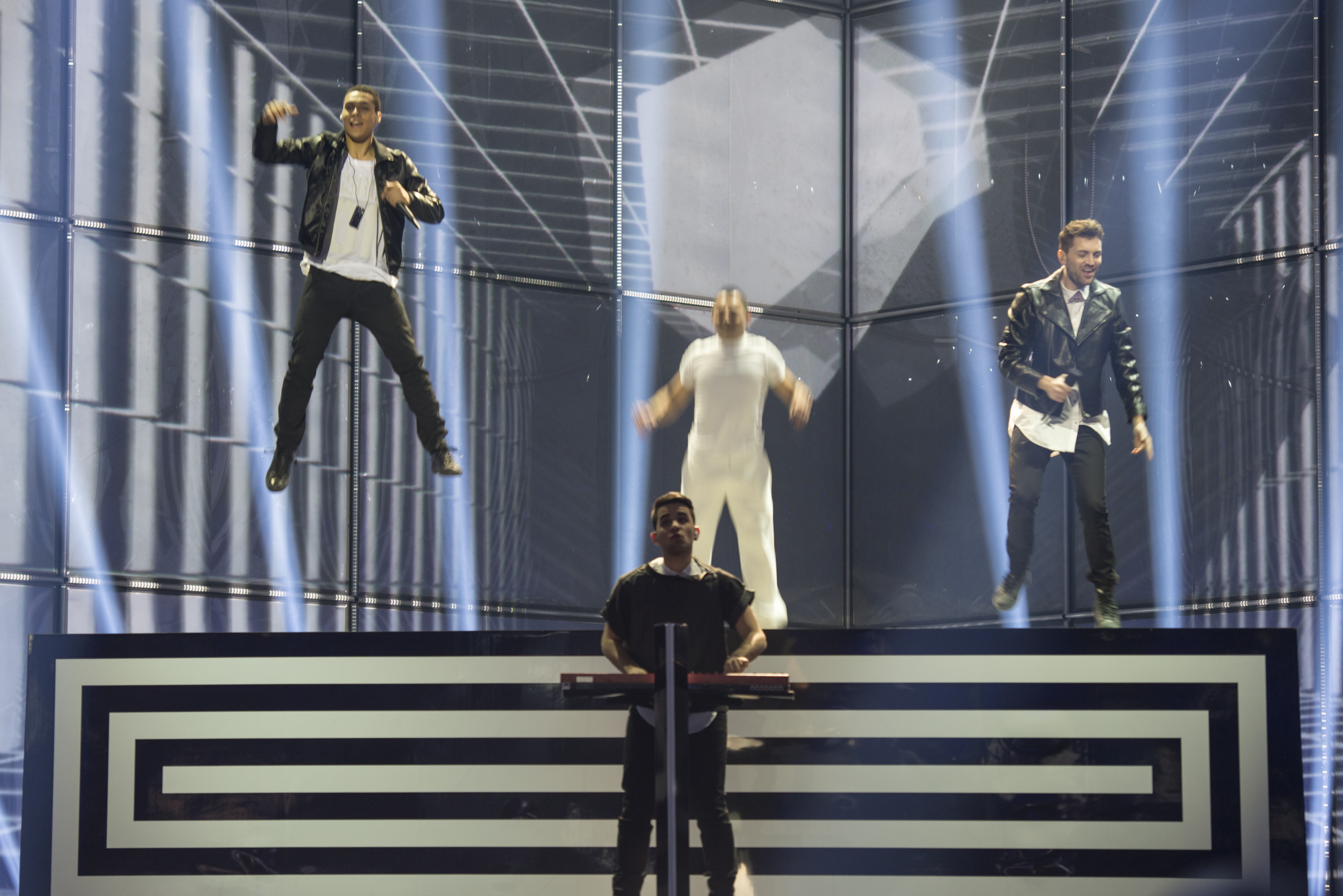 Freaky Fortune and Shane Schuller representing Greece with the song "Rise Up" during the first dress rehearsal of the second semi final of the Eurovision Song Contest 2014 Copenhagen. (Help translate this text)